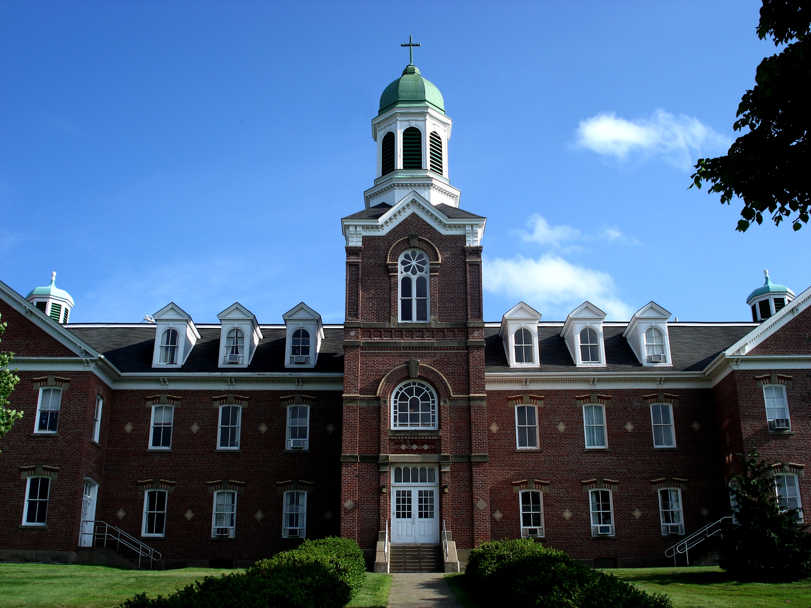 St. Francis Xavier University, Antigonish, Nova Scotia, Canada.